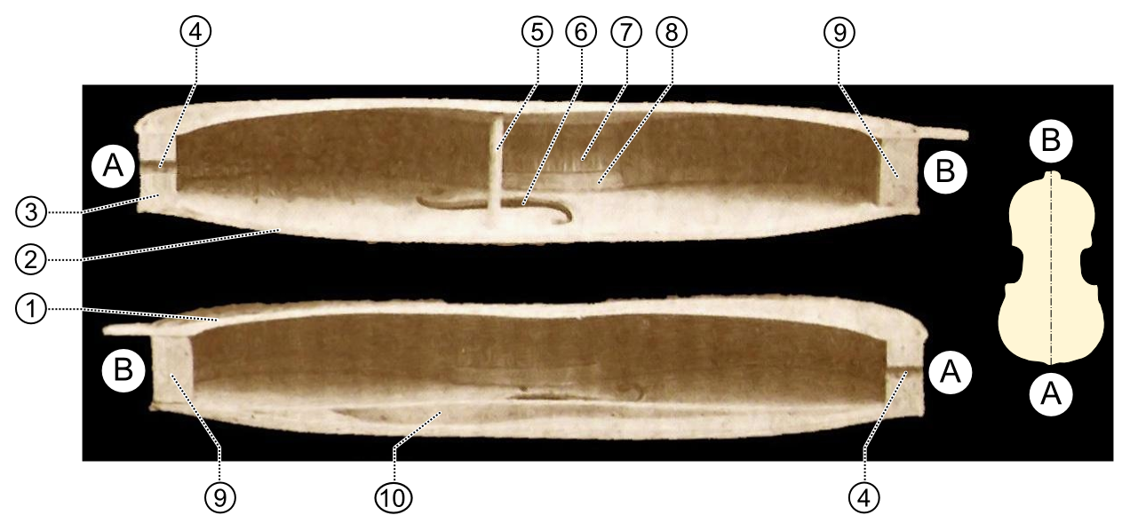 Violin bout : cross section